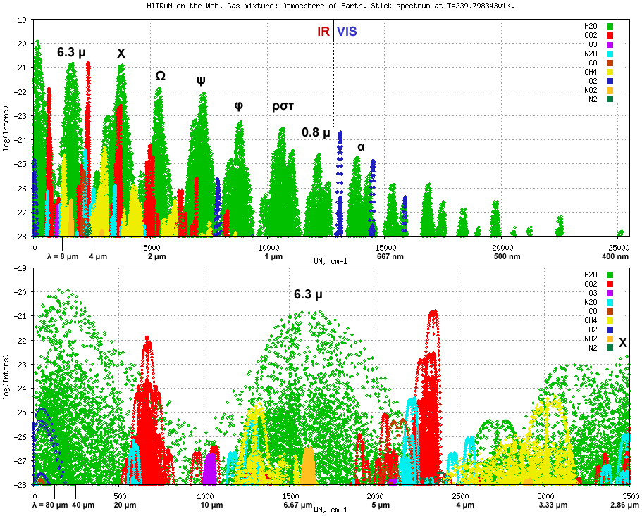 This is modification of a synthetic atmosphere absorption spectrum (Stick spectrum) for a custom gas mixture containing: H2O: 0.400000 CO2: 0.039445 O3: 0.000003 N2O: 0.000032 CO: 0.000010 CH4: 0.000179 O2: 20.946000 NO2: 0.000002 N2: 78.084000 % 239.79834301K, 0.380327366537013 atm generated using Hitran on the Web Information System.